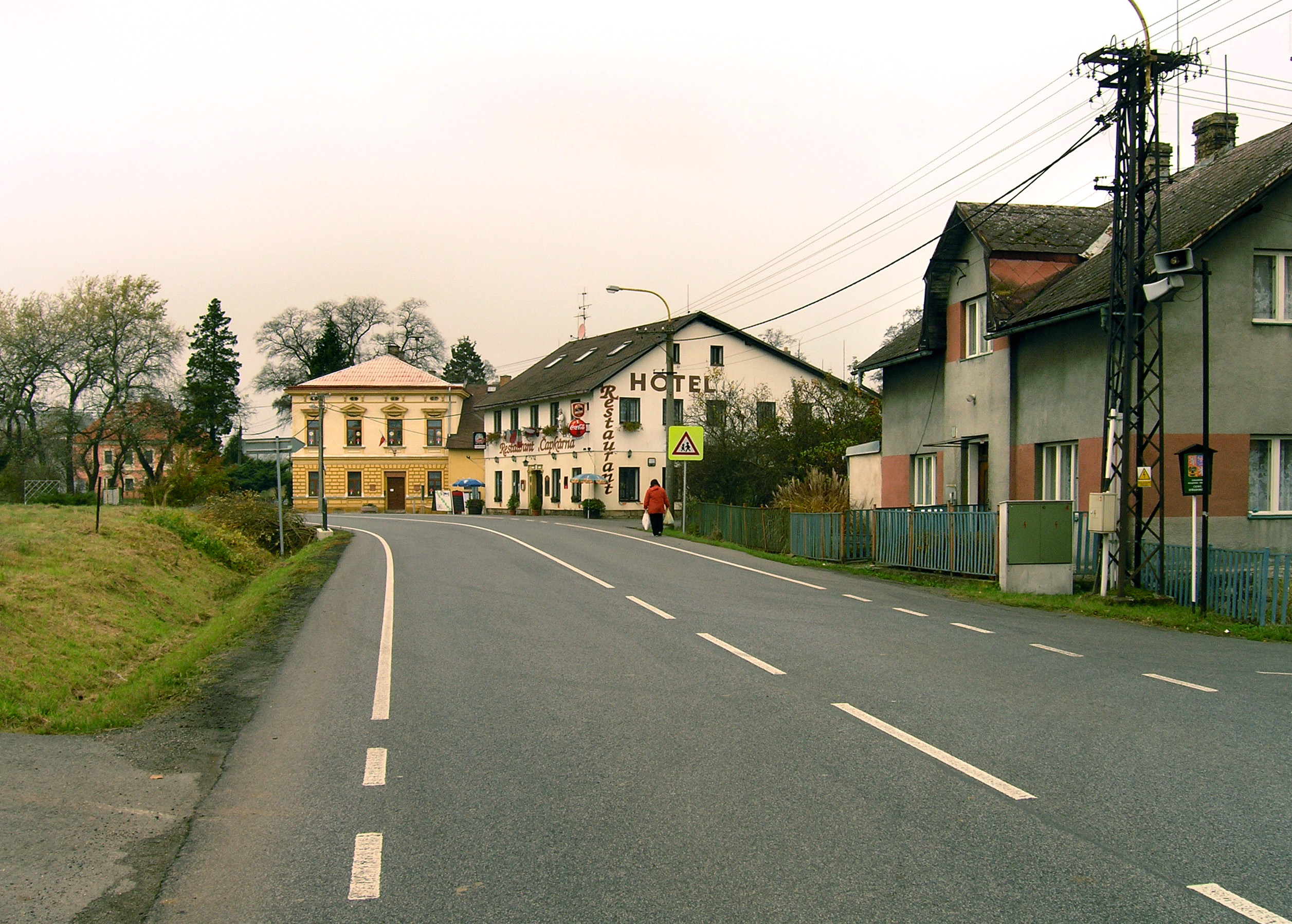 Main street in Stružnice village, Czech Republic